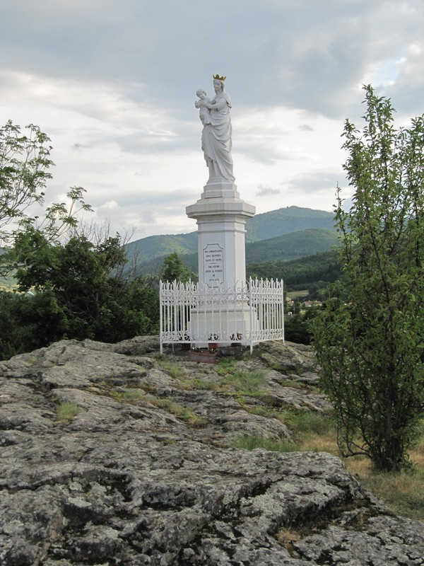 Virgin with child “Suc de la Garde”, F-07100 Roiffieux (Ardèche - Rhône-Alpes, France).